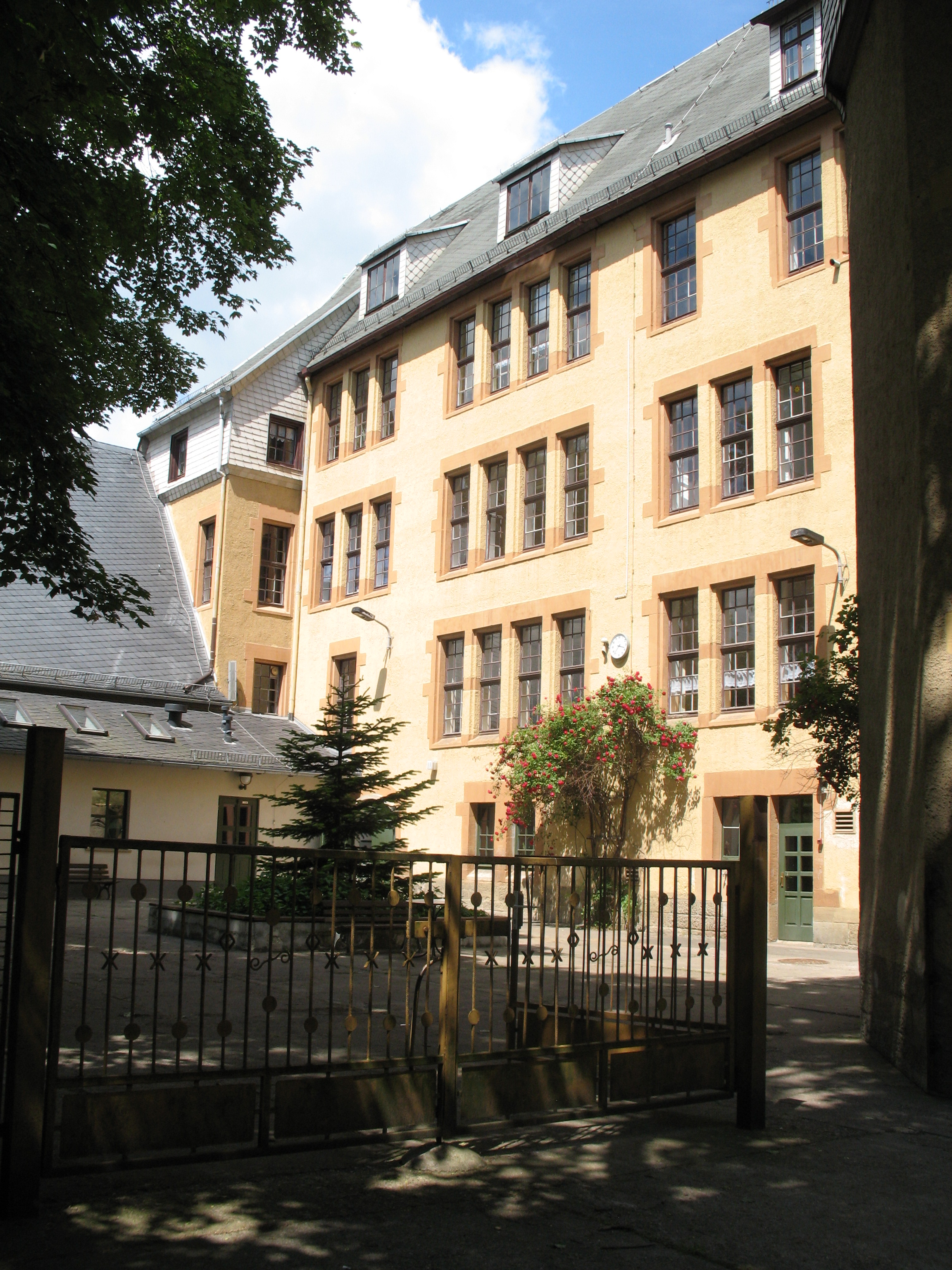 The FH Kunst at the Lindenallee in Arnstadt